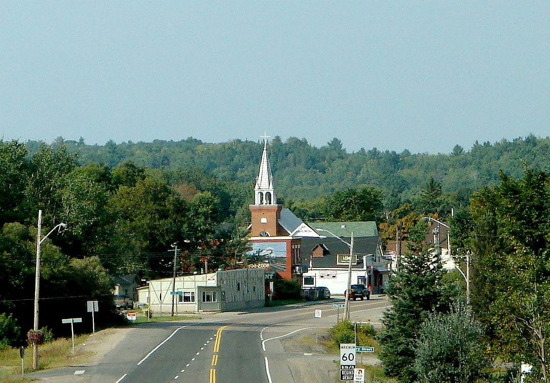 Webbwood, part of Sables-Spanish Rivers township, Ontario, Canada.